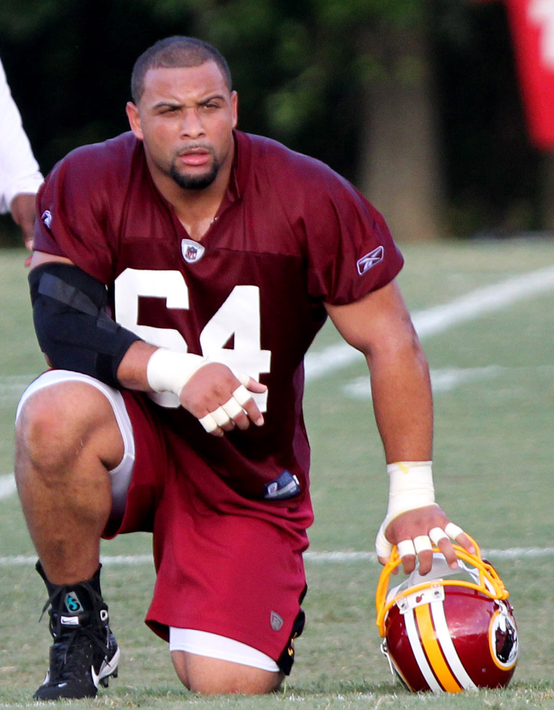 Kedric Golston at Washington Redskins Training Camp August 4, 2011